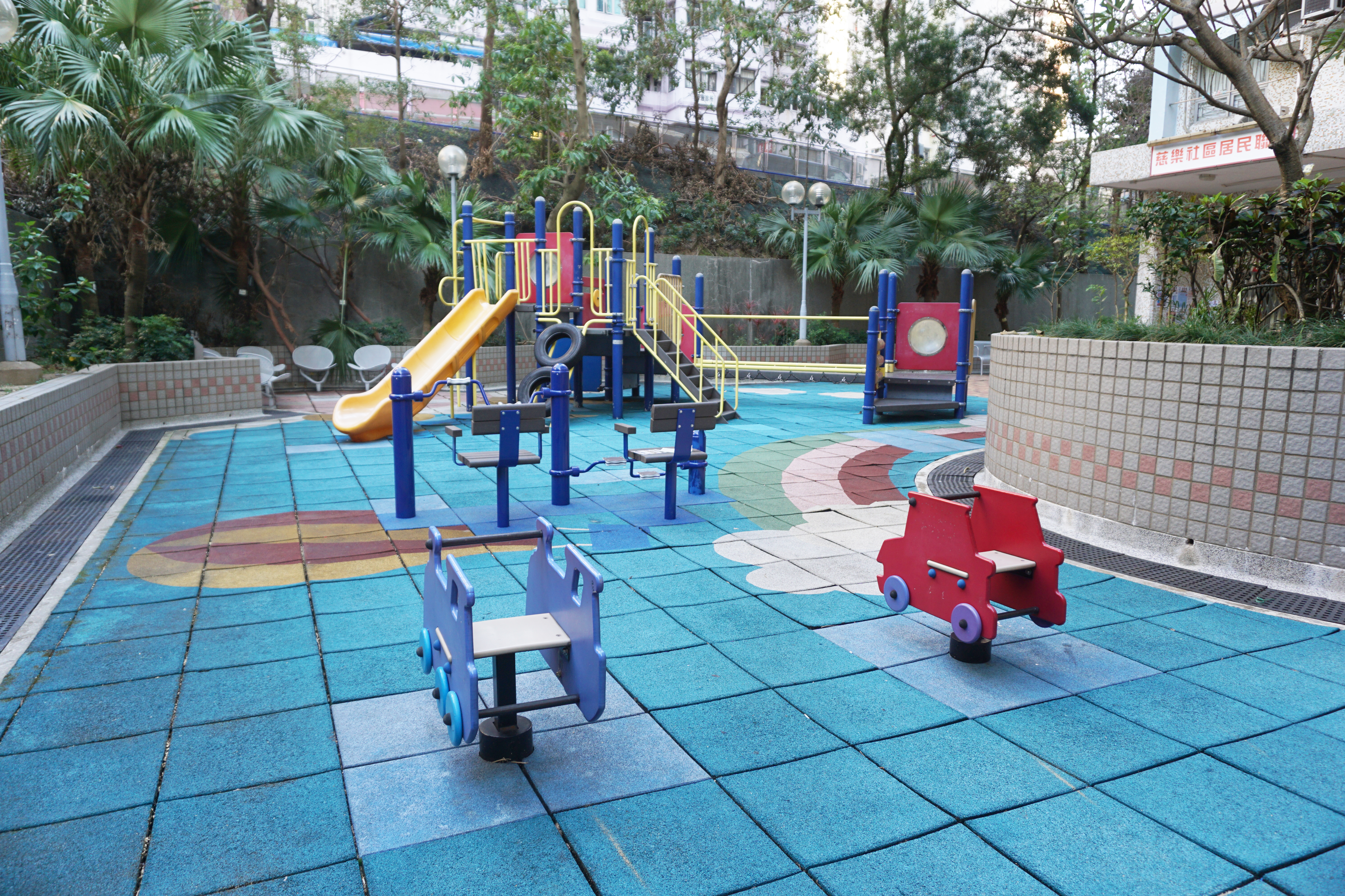 Tsz Lok Estate in Tsz Wan Shan, Hong Kong.